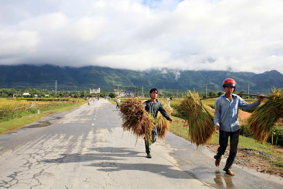 Vào vụ